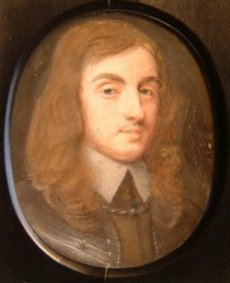 John Leslie, 1st Duke of Rothes Attributed to Samuel Cooper. Watercolour on card 2 ins. Red-brown hair, dark background.